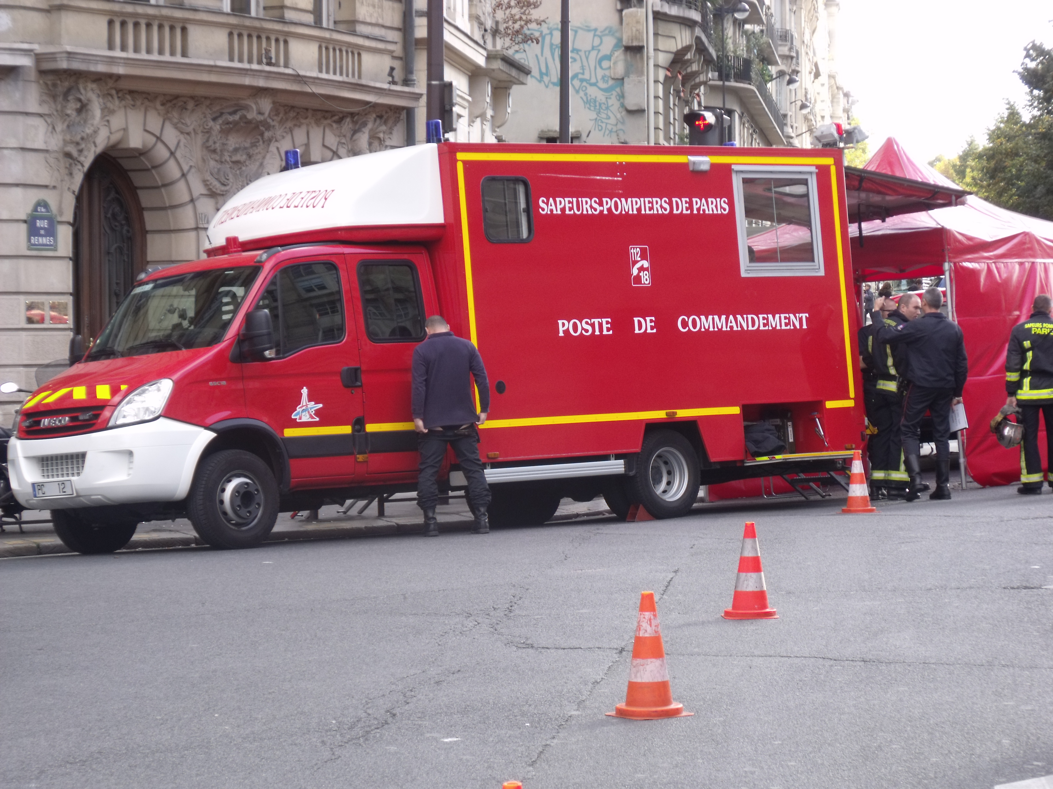 This truck is used like a Mobile HQ by Paris Fire Brigade in june 2011.